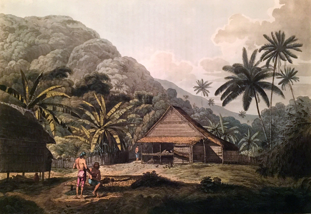 Plate XV. View in the Island of CracatoaIn February 1780 the crews of HMS Resolution and HMS Discovery, on the way home after Cook's death in Hawai’i, stopped for a few days on Krakatoa where they found two springs, one fresh water and the other hot. Indeed, Krakatoa, or Krakatau, is a volcanic island situated in the Sunda Strait between the islands of Java and Sumatra in the Indonesian province of Lampung. The name is also used for the surrounding island group comprising the remnants of a much larger island of three volcanic peaks which was obliterated in a cataclysmic series of massive explosions over August 26–27, 1883. This was among the most violent volcanic events in recorded history, unleashing huge tsunamis (killing more than 36,000 people) and destroying over two-thirds of the island. The most recent eruption prior to Webber’s visit, however, had been in 1680, such that upon their arrival crew members found a friendly place whose vegetation was dense and lush.